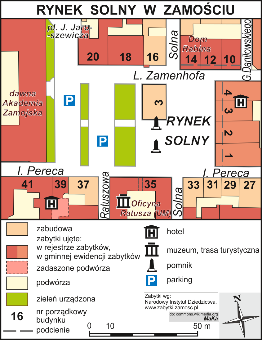 Plan of Salt Market Square in Zamość, Poland